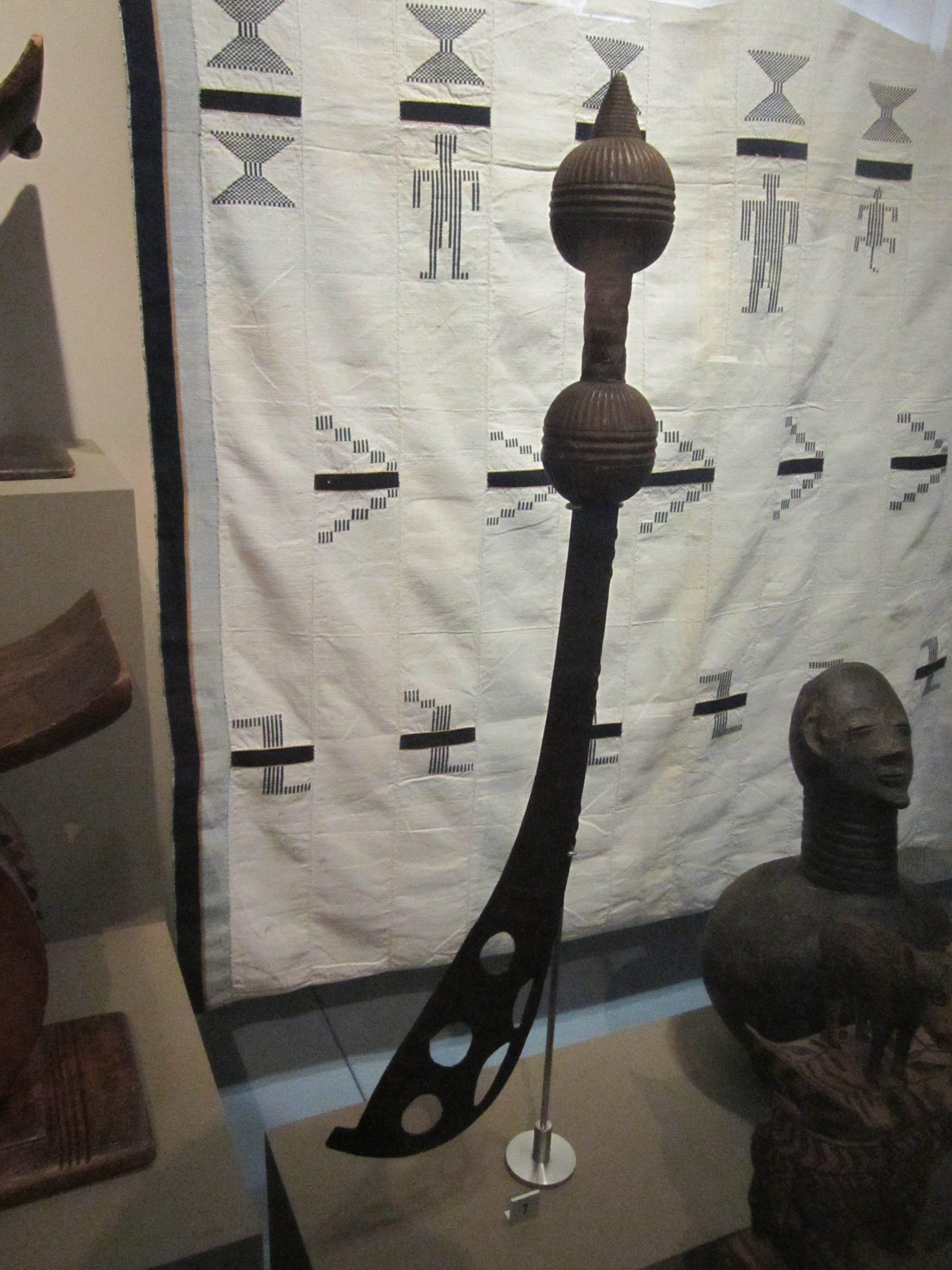 Photo taken at the World Museum Liverpool, England.